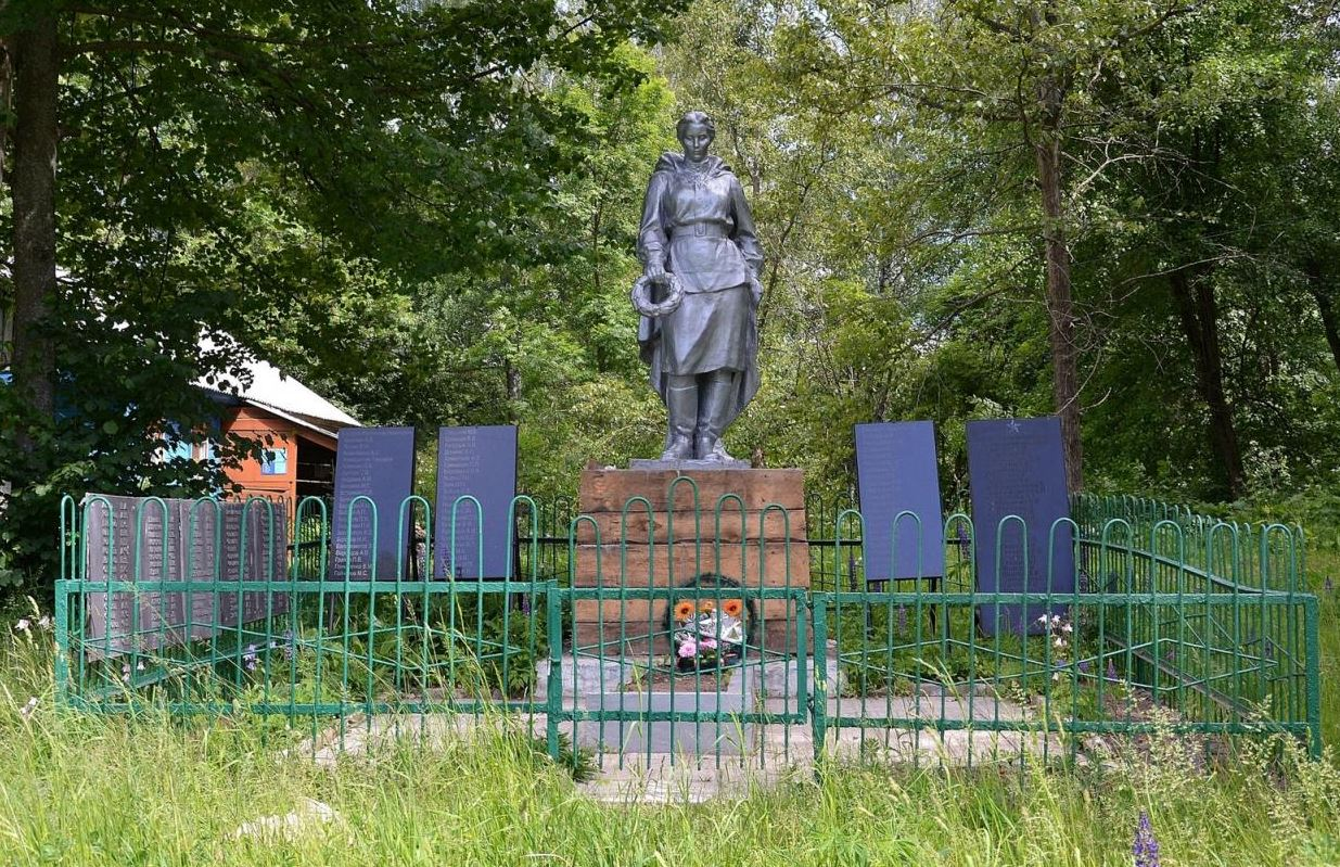 Близненские_Дворы